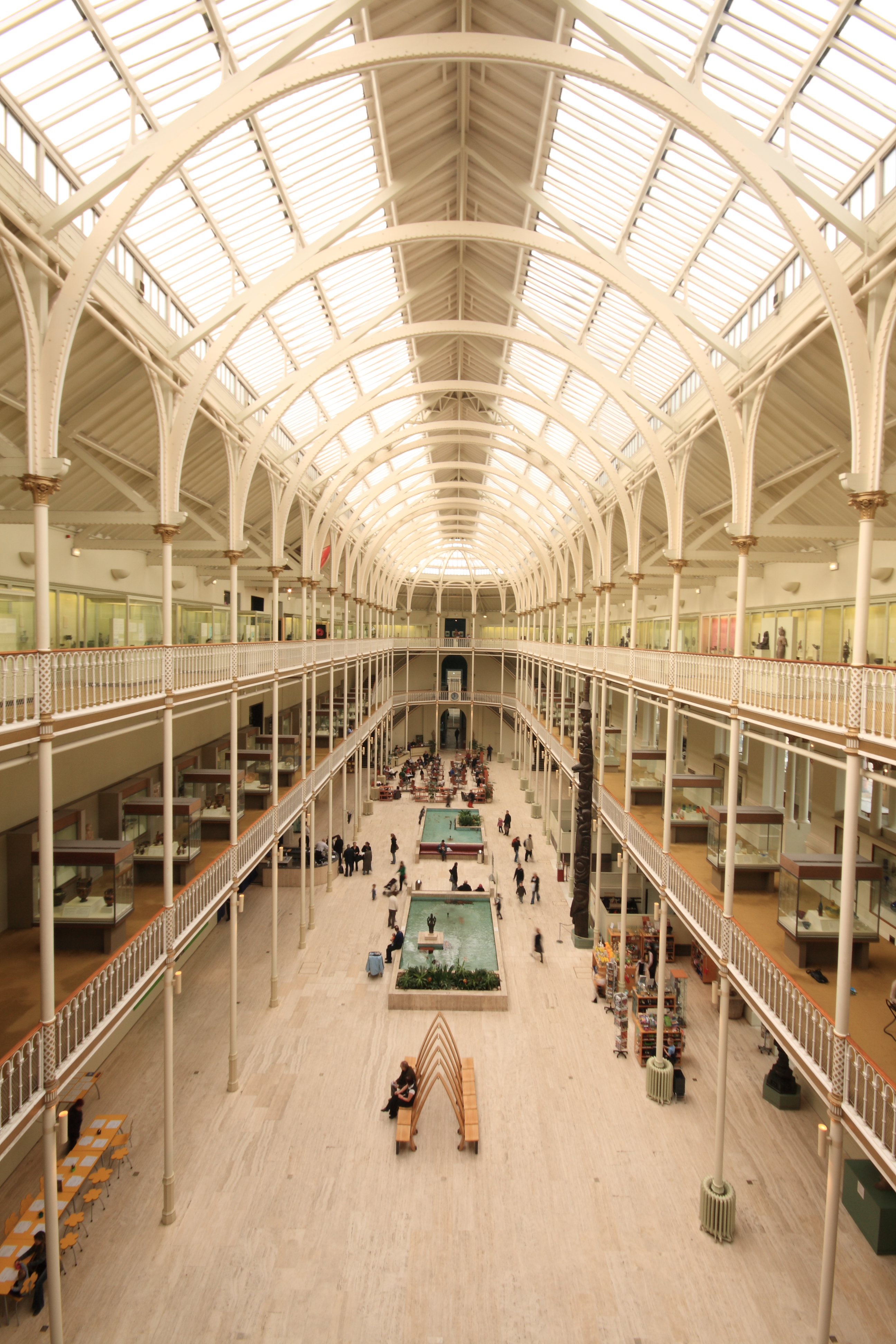 See where this picture was taken. [?]